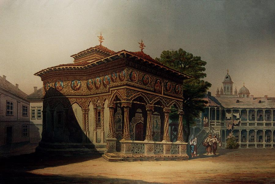 Print based on a Szathmary aquarelle; Carl Isler, 1883